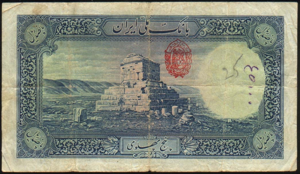 back of paper money of iran ; 500 rial, published in 1938; picture of mausoleum of cyrus the great , pasargad